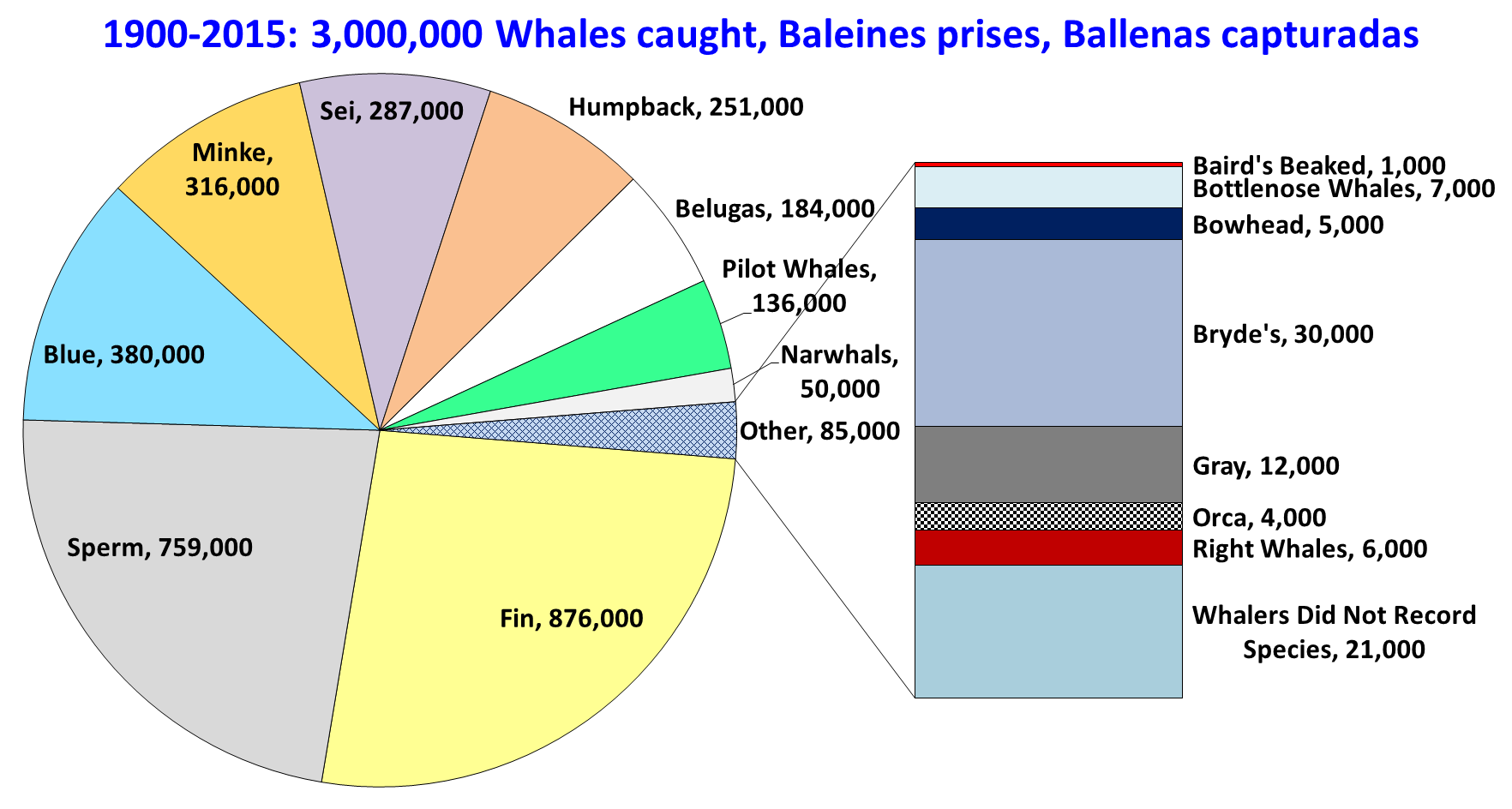 Whales caught since 1900, by species Sources: IWC Summary Catch Database version 6.1, July 2016,[1] which includes great whales, orcas (mostly caught by Norway and USSR), bottlenose whales (mostly Norway), pilot whales (mostly Norway in that database), and Baird's Beaked Whales (mostly Japan). This database also has some pre-1900 counts, not shown here, especially for the US back to 1848, and for Norway back to 1864, and partial data for other countries. The IWC database is supplemented by Faroese catches of pilot whales,[2] Greenland's and Canada's catches of Narwhals (data 1954-2014),[3] Belugas from multiple sources shown in the Beluga whale article, Indonesia's catches of sperm whales,[4][5] bycatch in Japan 1980-2008,[6] [7] [8] and bycatch in Korea 1996-2017.[6] [9] The IWC database includes illegal whaling from USSR and Korea.[1] This is supplemented by academic findings on Korea for 1999-2003.[10] [11] Note that most species of dolphins are omitted. Otherwise the main areas of missing data are: bycatch in other countries (generally much smaller), narwhals before 1954; belugas in Canada and USA before 1970, and in Nunavut (Canada) for all years; belugas in USSR in Bering, East Siberian and Laptev Seas and Sea of Okhotsk outside Amur River area.